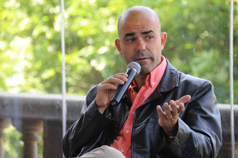 Eduardo Sacheri presenting his book Papeles en el viento at ITESM Campus Ciudad de México